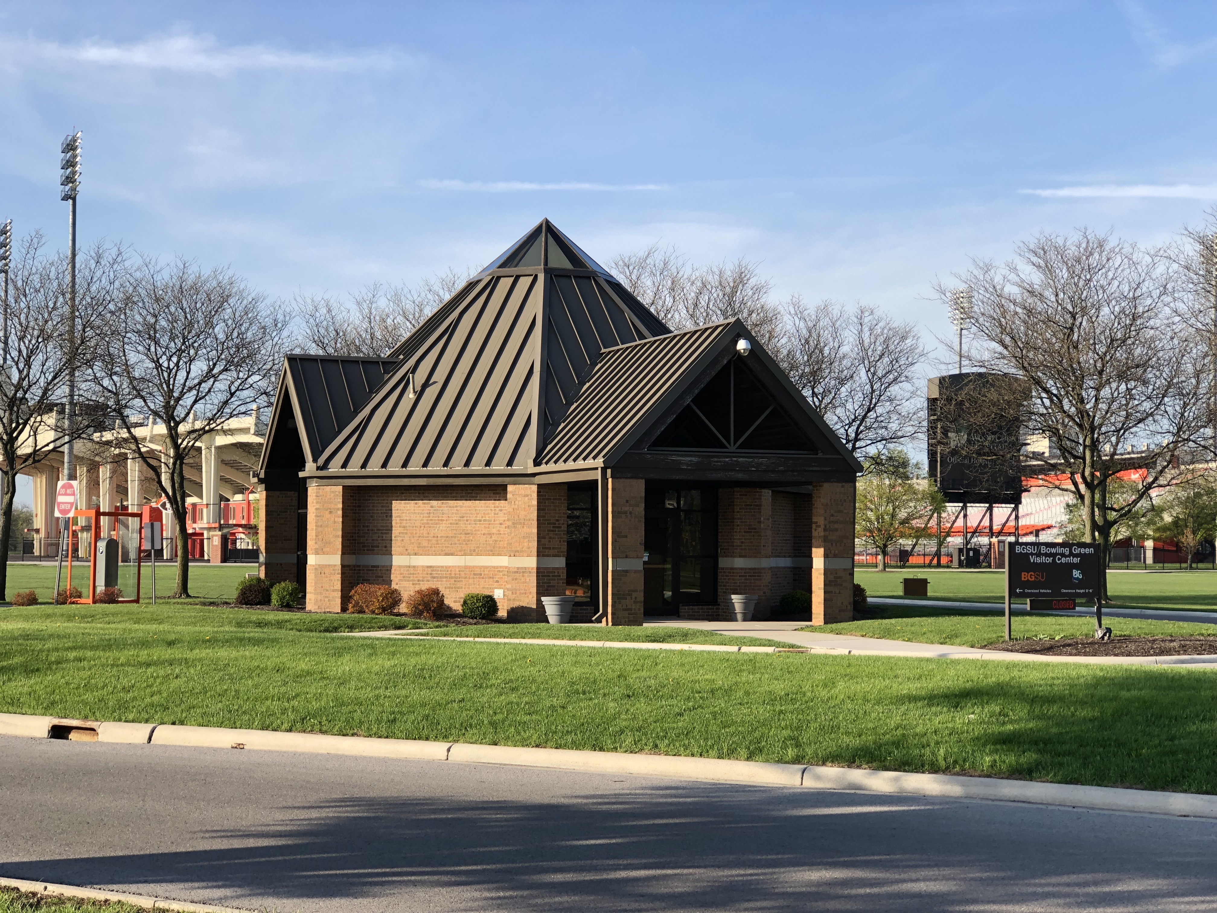 The picture of Bowling Green visitor center. This building has since been re purposed as a building for Shuttle Services.